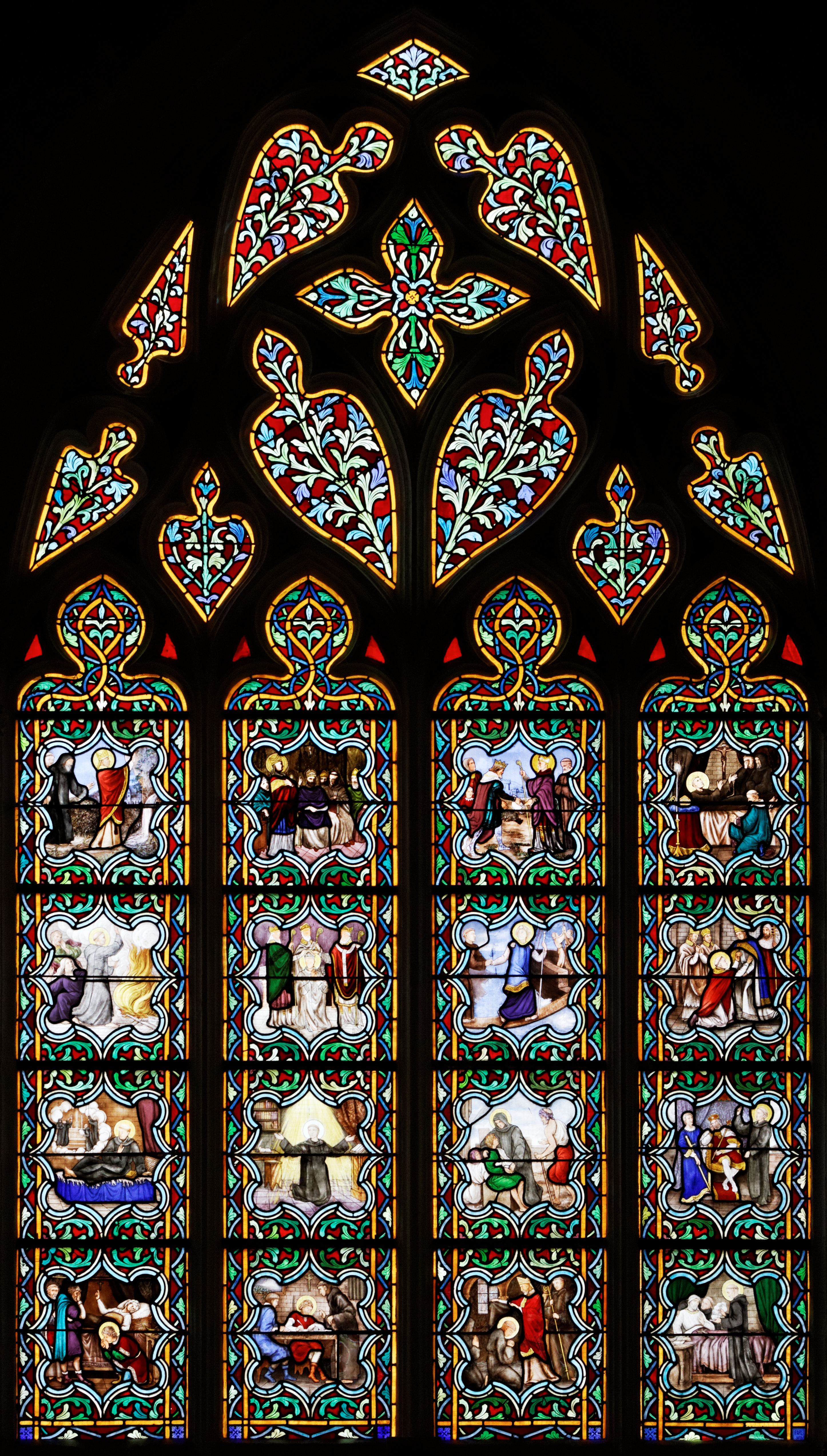 The Life of St Anselm in St Corentin Cathedral in Quimper, Finistère, Brittany, France.